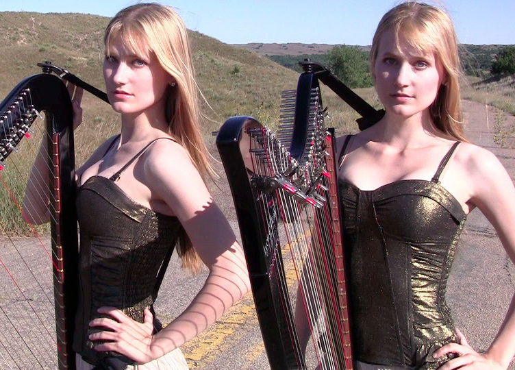 Camille and Kennerly Kitt, also known as The Harp Twins, pose with their electric harps on a seemingly abandoned road under blue skies to promote one of their harp duet videos.